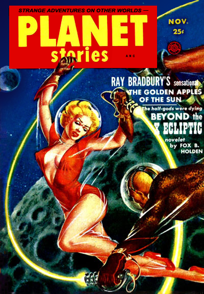 Cover of Planet Stories, November 1953, artwork by Frank Kelly Freas. The magazine featured the first publication of Ray Bradbury's Golden Apples of the Sun. PNG version of this file.